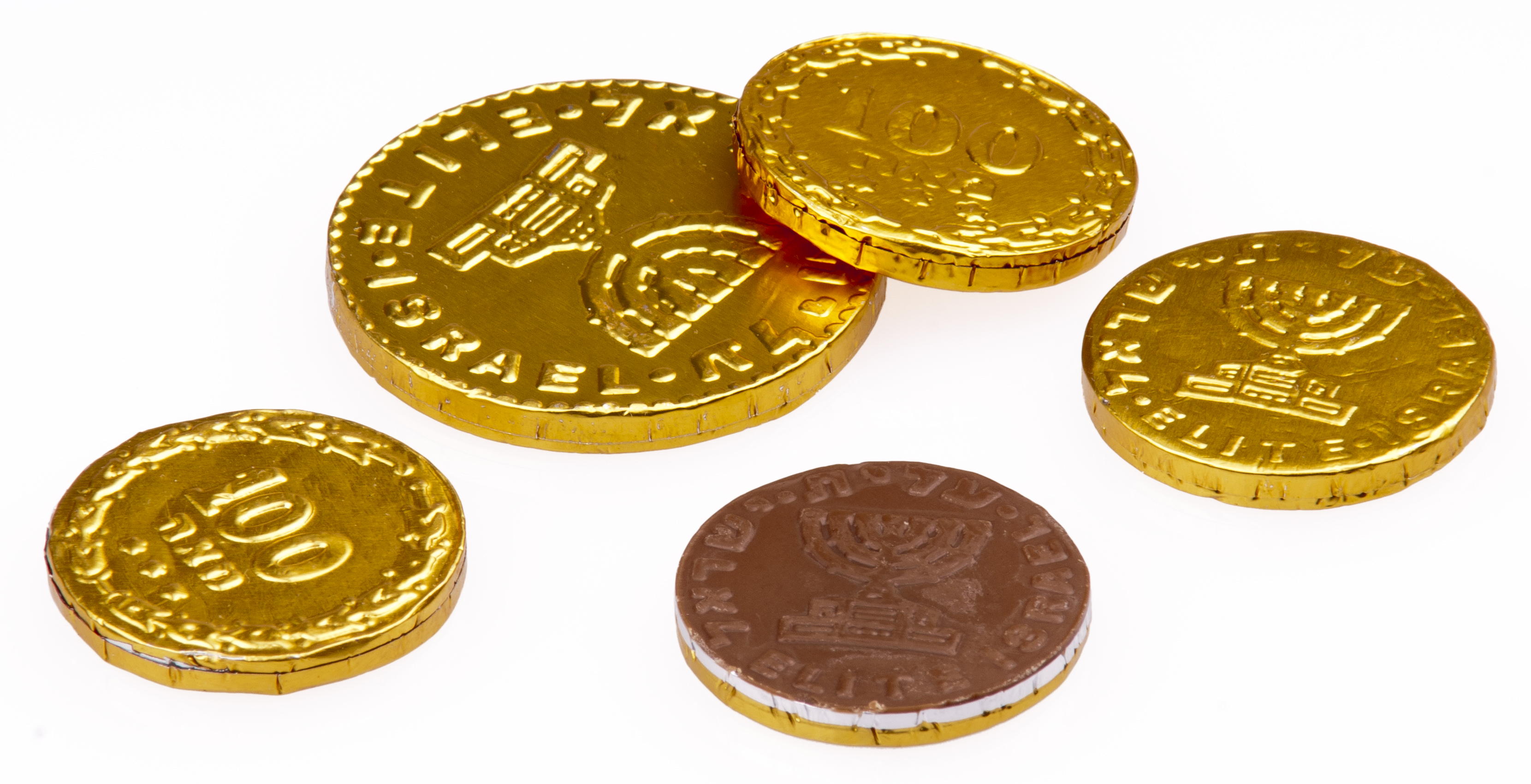 Chocolate, gold-foil covered coins. Made by Elite.